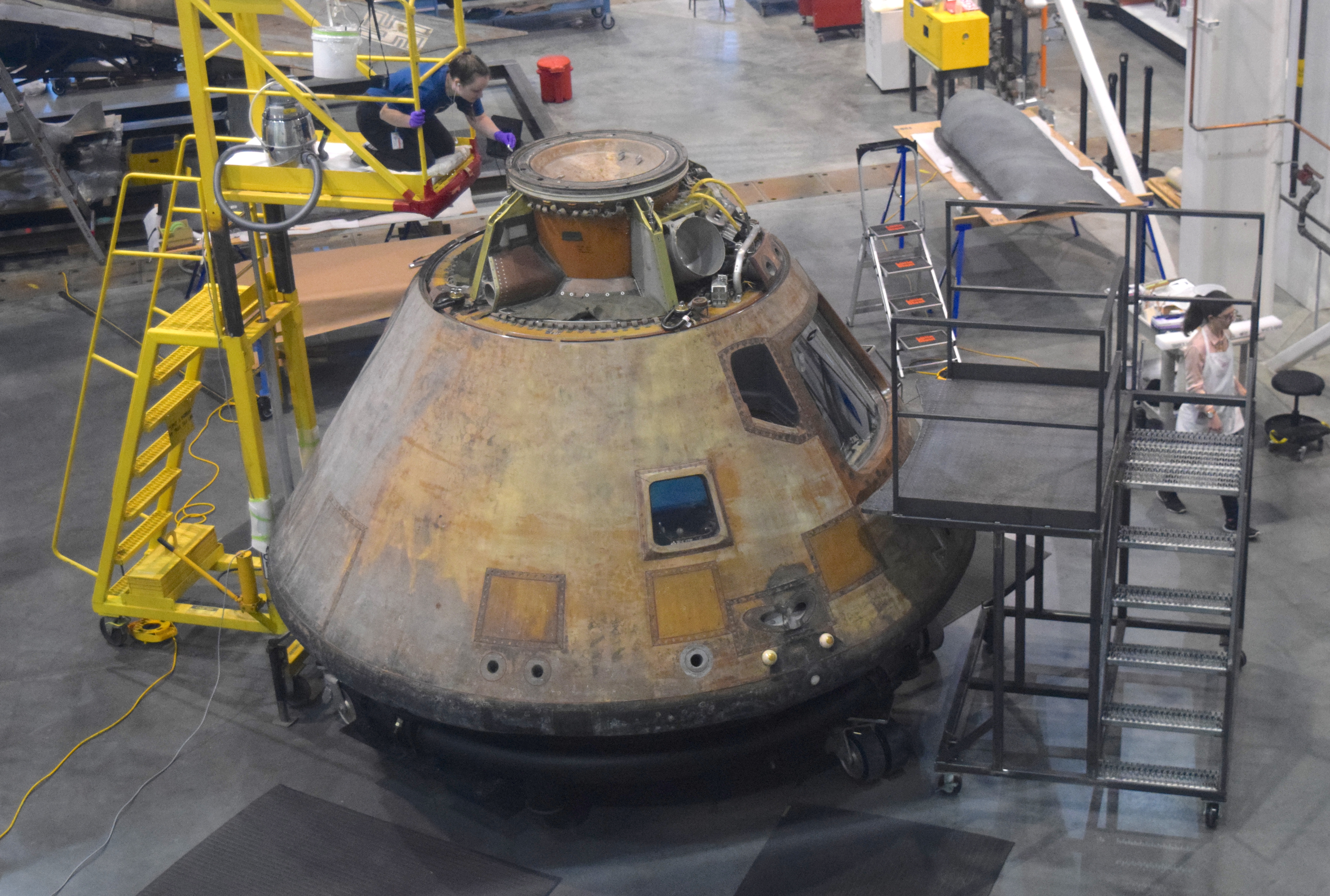 Apollo 11 Command Module at the Mary Baker Engen Restoration Hangar at the Steven F. Udvar-Hazy Center in Chantilly, VA.